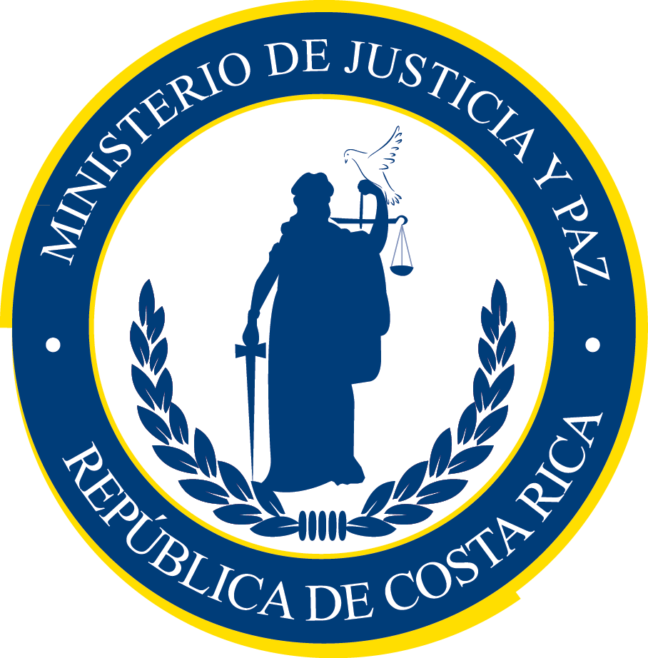 Logo Ministerio de Justicia y Paz